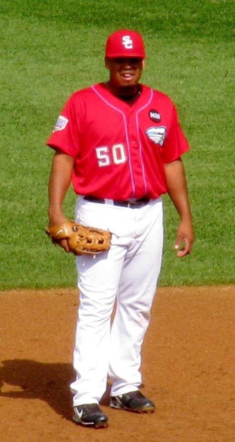 Daryle Ward playing for the Syracuse Chiefs against the Pawtucket Red Sox, 7 September 2009.